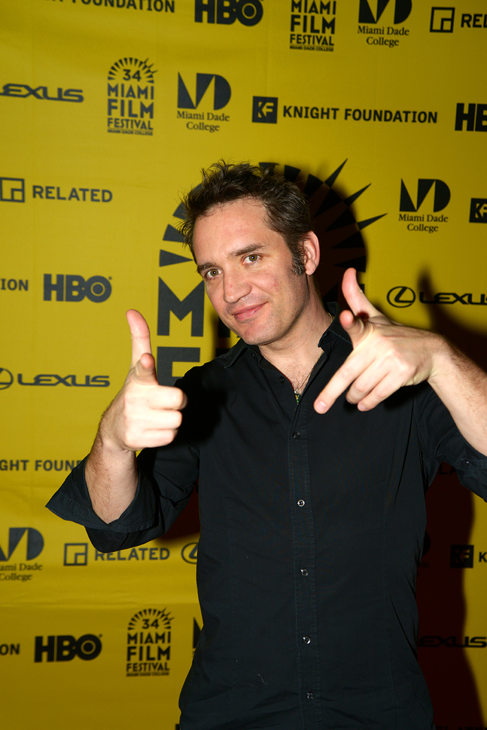 Cristián Jimenez at the 2017 Miami International Film Festival presentation of Film: Family Life